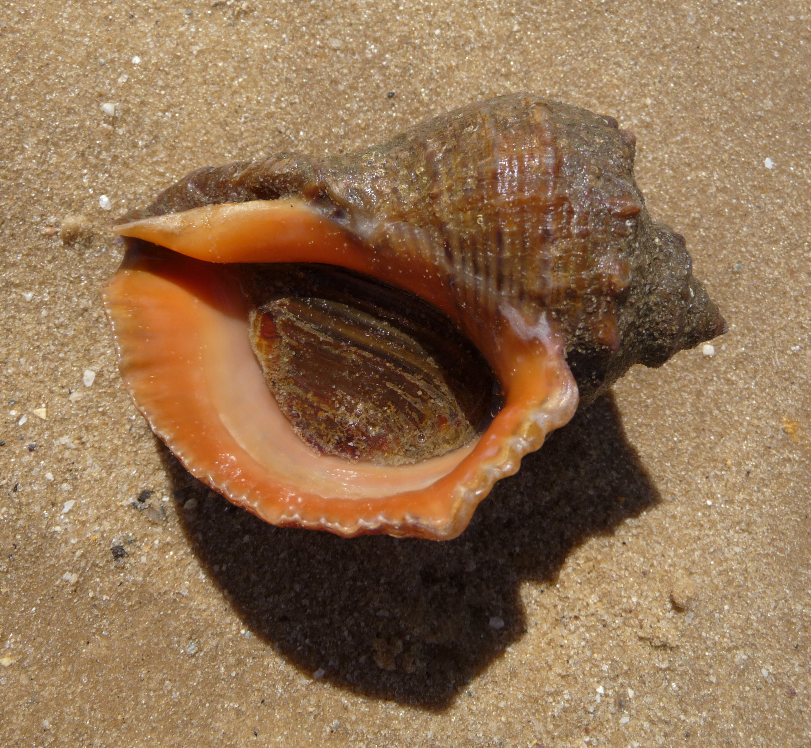 Veined rapa whelk (Rapana venosa). The Black Sea.